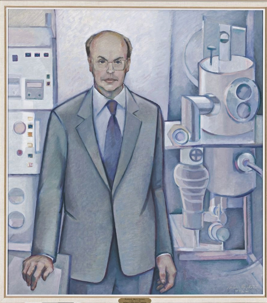 Portrait painting of the Finnish professor of metallurgy Martti Sulonen (1922–2011).